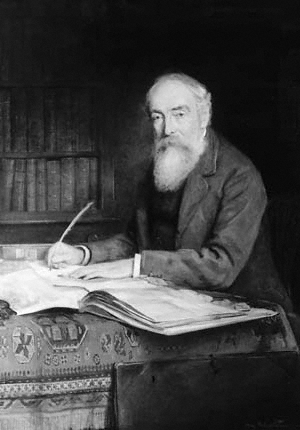 George Edward Edward, Clarenceux King of Arms in 1900. This image was painted by Kay Robertson.